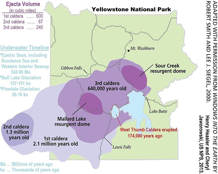 Map of the Yellowstone Caldera. (1) This 2013 publication by United States National Park Service at web posting replaces previous USGS map, File:Yellowstone Caldera map2.jpg. The older diagram, File:Yellowstone Caldera map2.jpg, is posted on-line as "fig_03_yellowstone_map.jgp," dated 14 March 14 2005. Very similar map, but nevertheless some minor changes were made over the elapsed 8 years. Specifically, the northernmost "uncertain boundary" for the 1st caldera has been replaced. (2) Note that West Thumb Caldera (44°25′40″N 110°31′57″W) is not to be confused with West Thumb Geyser Basin (44°25′07″N 110°34′23″W). Per the US NPS, West Thumb Lake is itself a smaller caldera. See Figure 22 at US NPS web site. West Thumb Caldera forms West Thumb Lake, and West Thumb Geyser Basin lies on the western shore of West Thumb Lake. Source: US NPS.